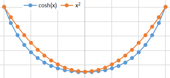 Curve of hyperbolic cosine, cosh(x), together with curve of parabola x^2.